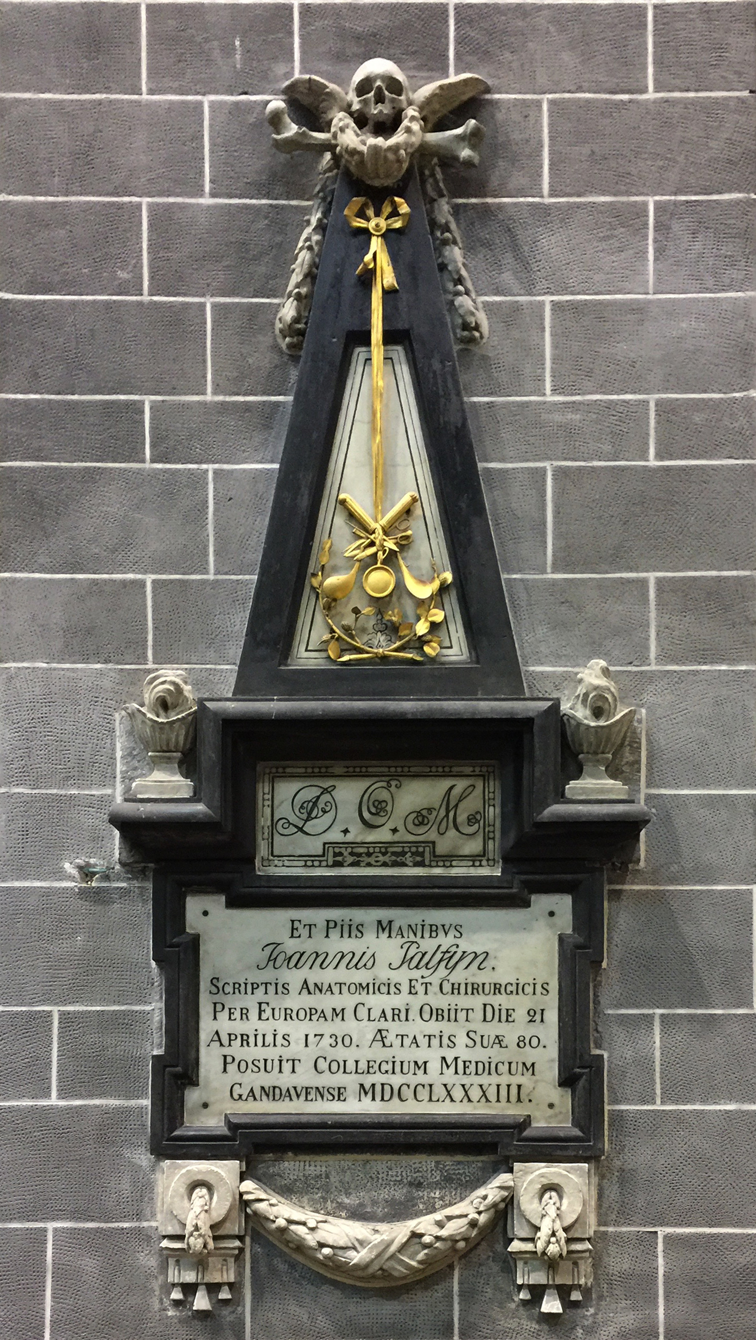 Cenotaph Jan Palfijn